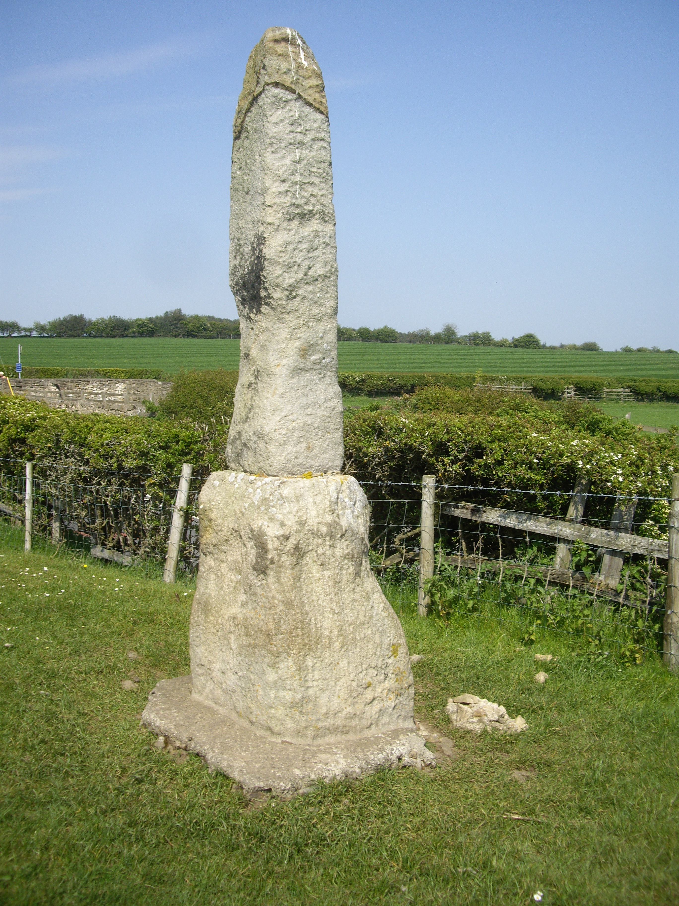 Legs Cross (restored)